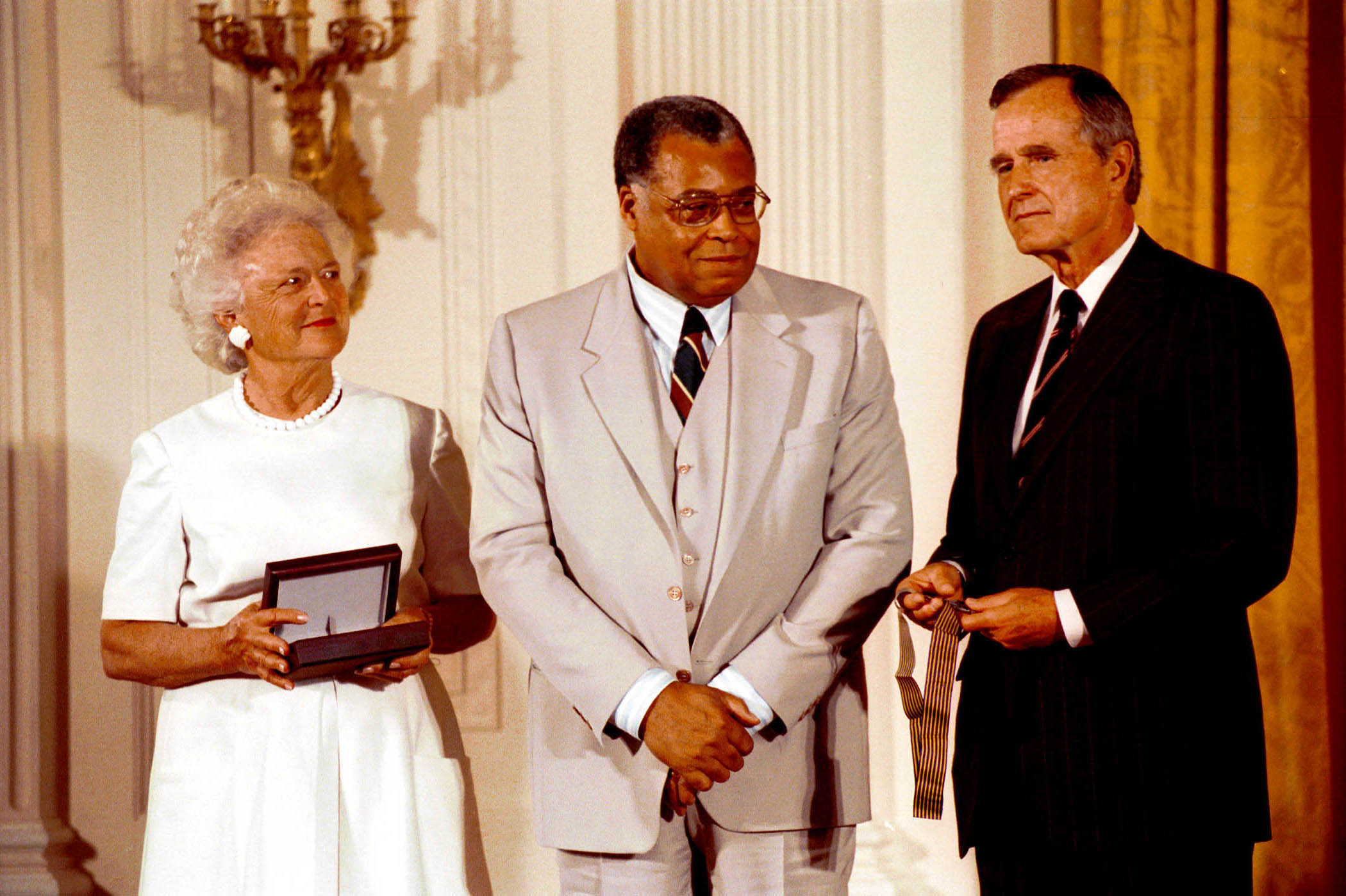 President George H. W. Bush and Mrs. Barbara Bush present the Medal of Arts to James Earl Jones.